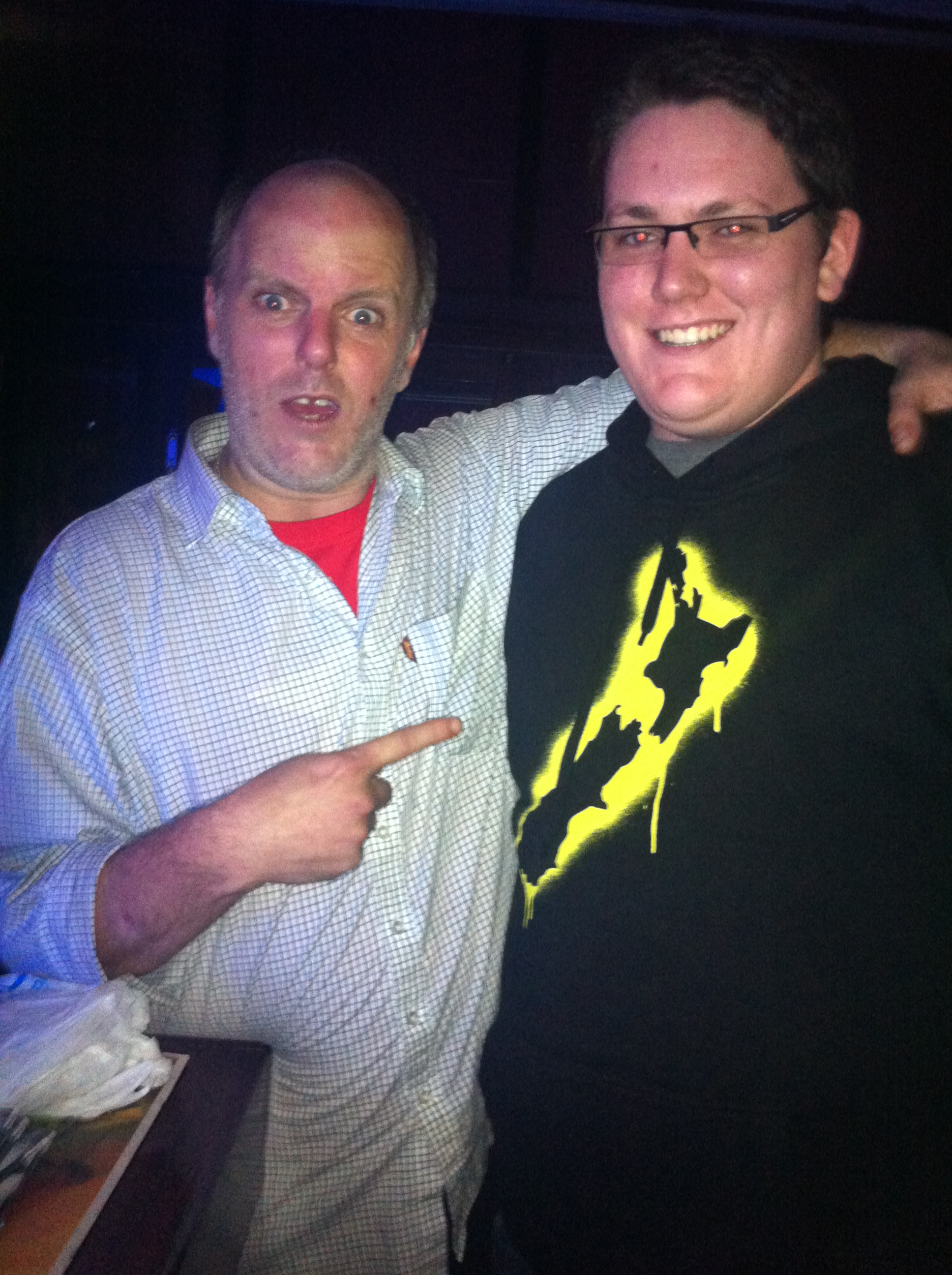 Greg Fleet with fan Yvan J Drake at the SoftBelly club in Melbourne.